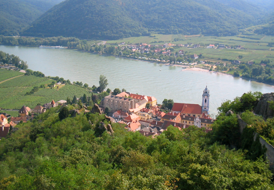 Panorama of Dürnstein from the castle, Wachau, Austria.